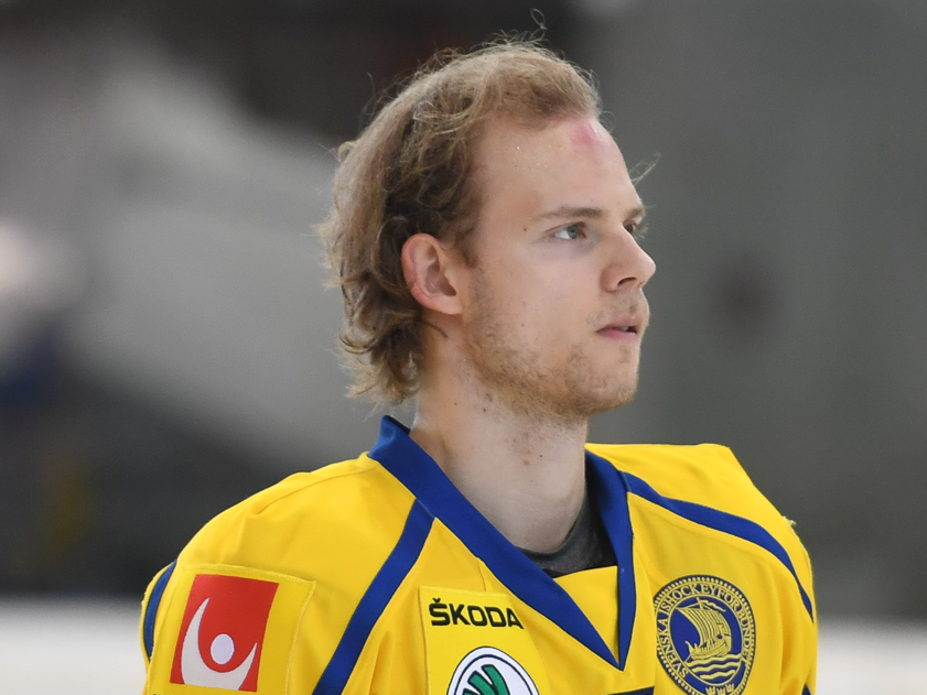 6/4/2017, Vienna, Austria, Sport, Ice Hockey, Friendly match Austria vs Sweden.